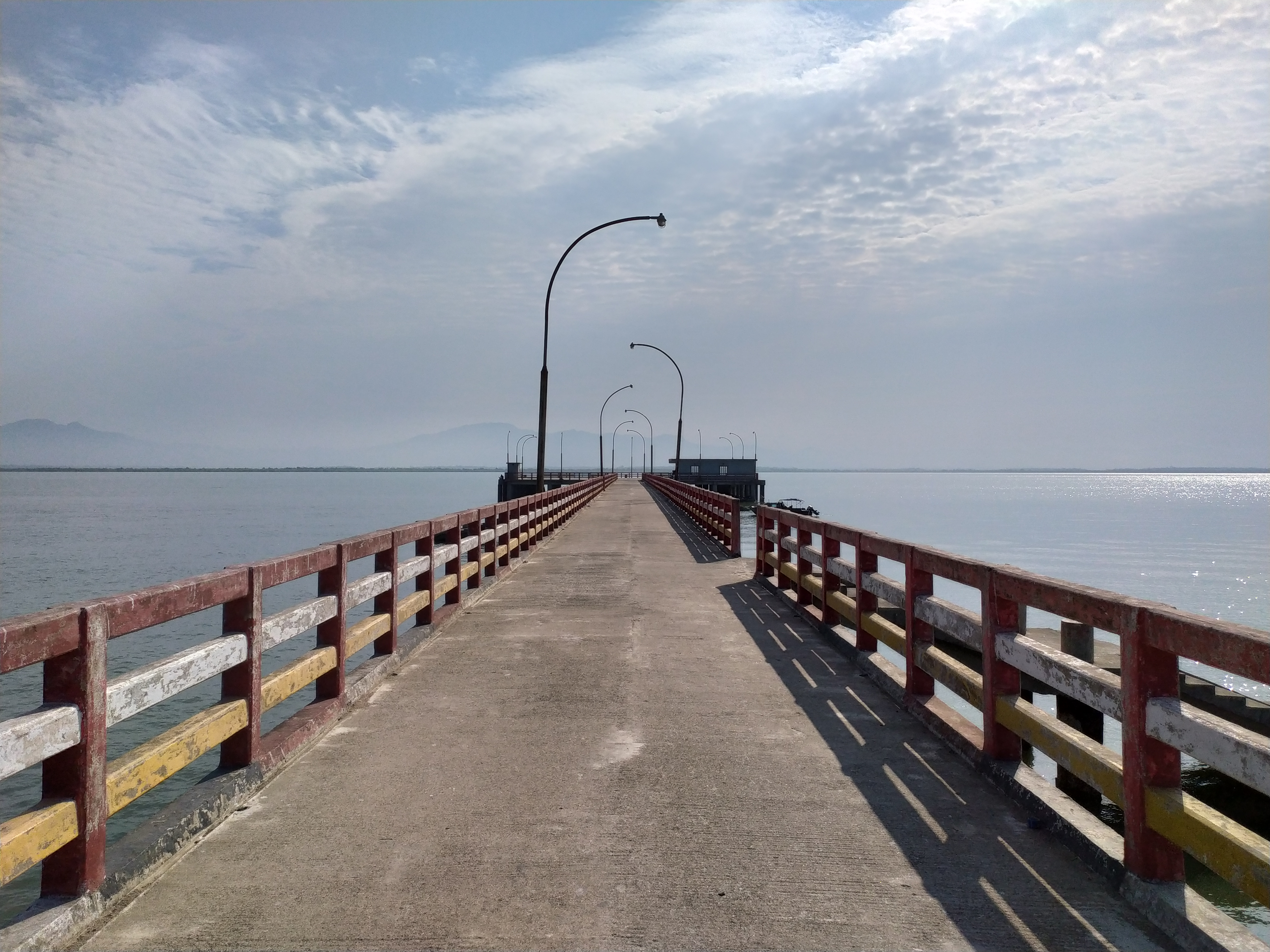 BGB Jetty Ghat, Teknaf, Cox's Bazar, Bangladesh